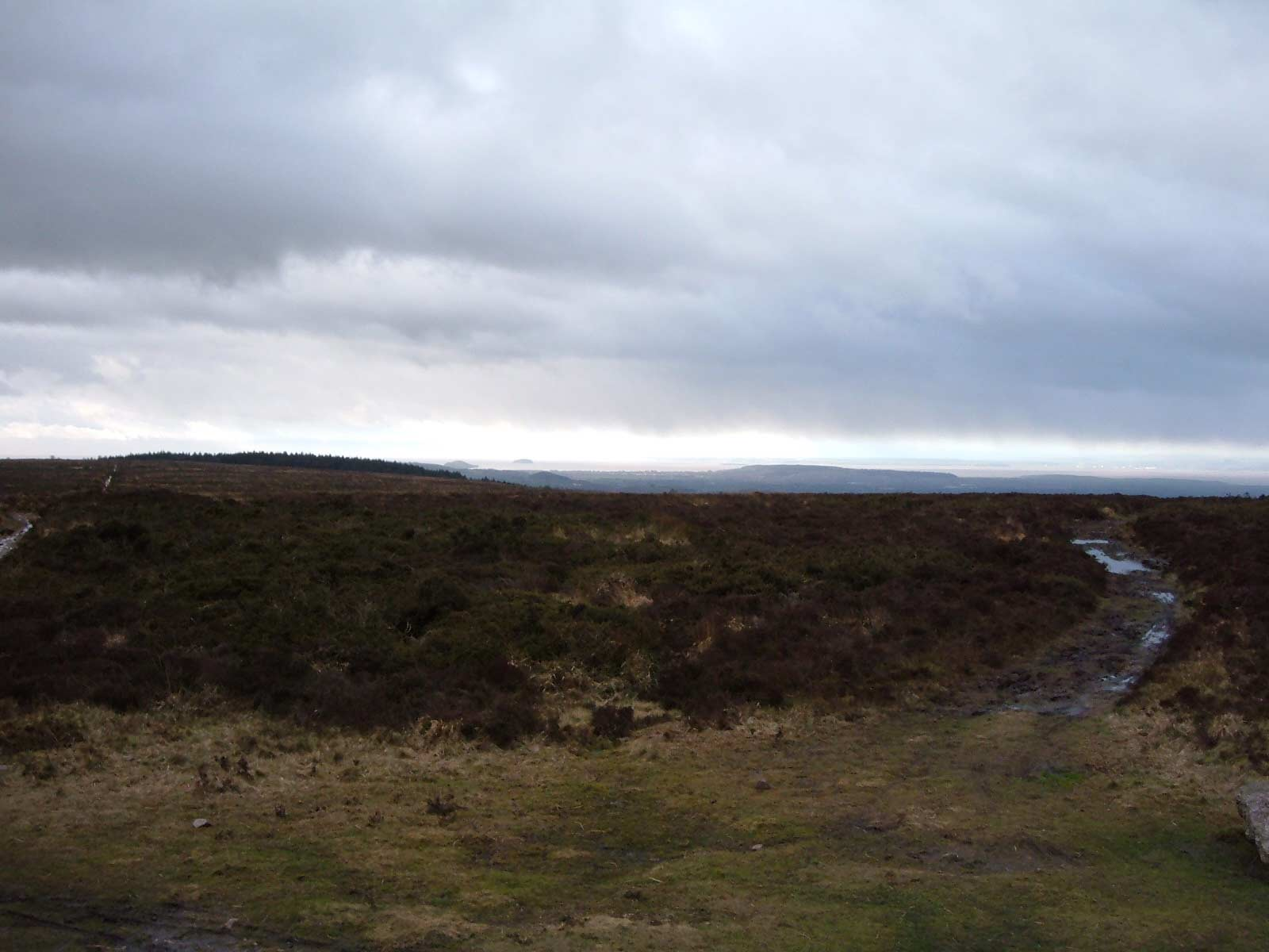 A photo across Black Down at Beacon Batch, highest point of the Mendip Hills, Somerset, England. Photo by Jsommer